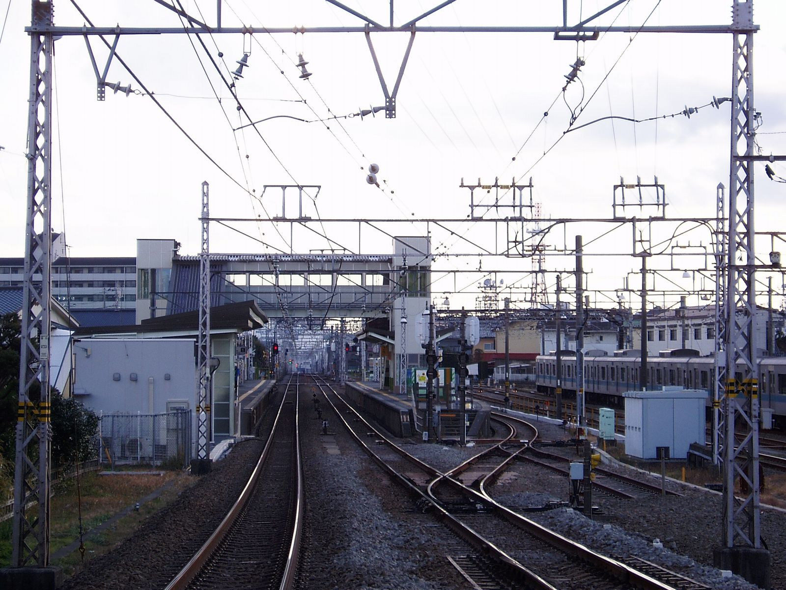 Inside of Odakyu Ashigara Sta.